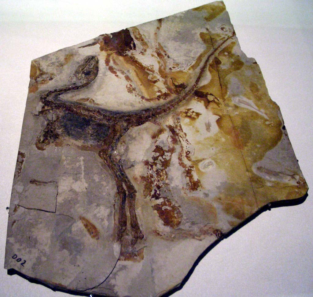 Sinosauropteryx prima fossil displayed in Hong Kong Science Museum